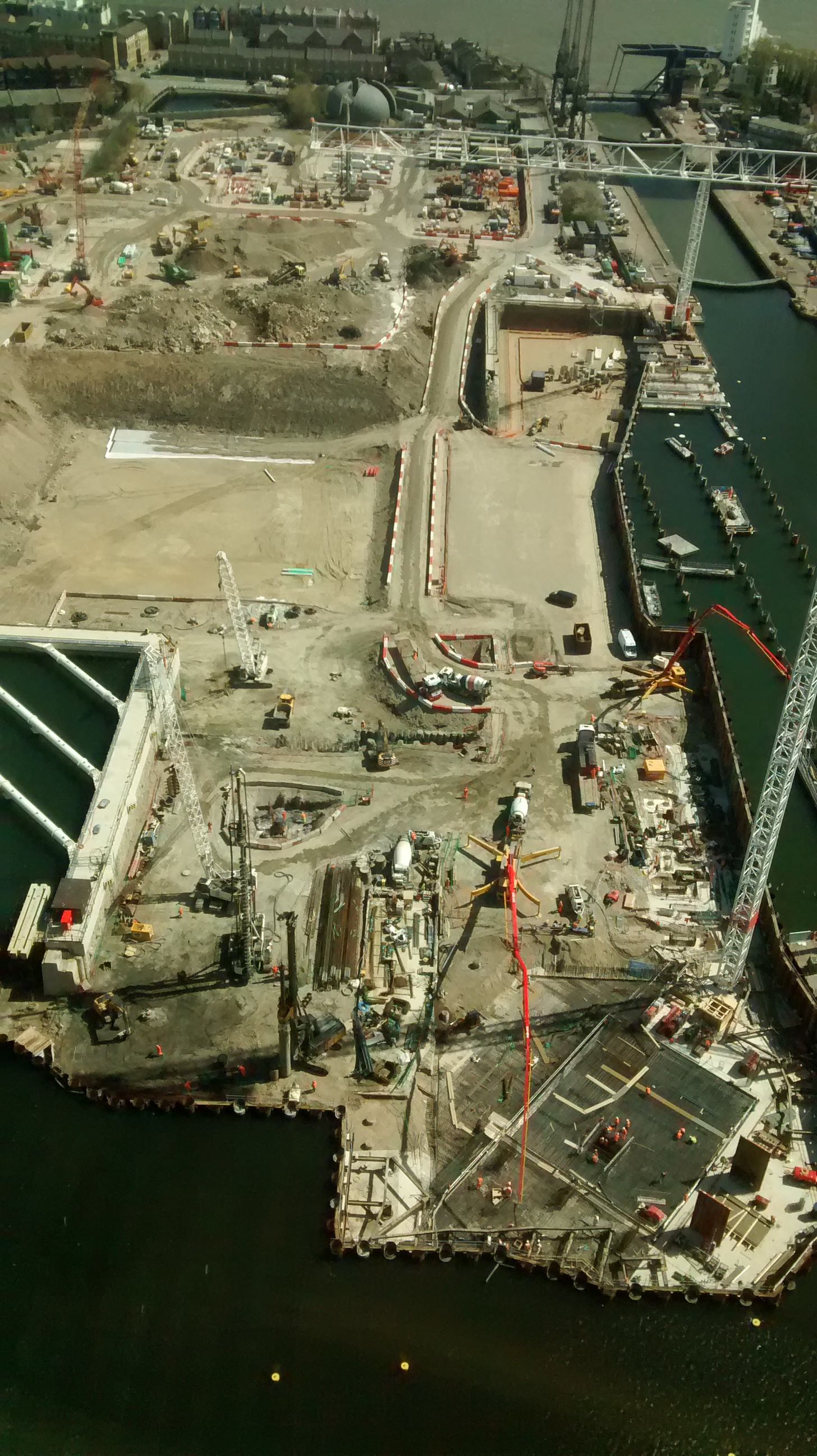 Wood Wharf under construction on 20 April 2016, as seen from Canary Wharf.